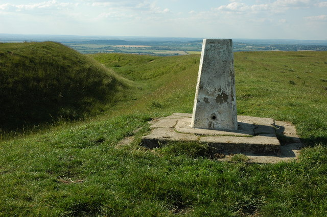 Trig point on Whitehorse Hill The trig point on Whtiehorse Hill is located beside the earthworks of Uffington Castle, at 261m this is the highest point in Oxfordshire.